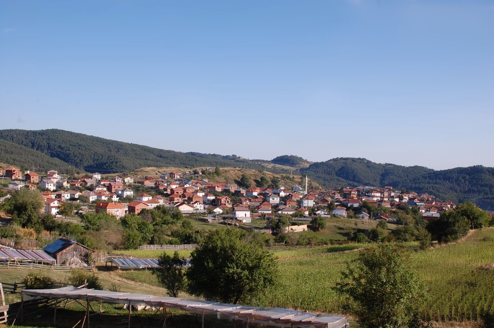 Ribnovo from South